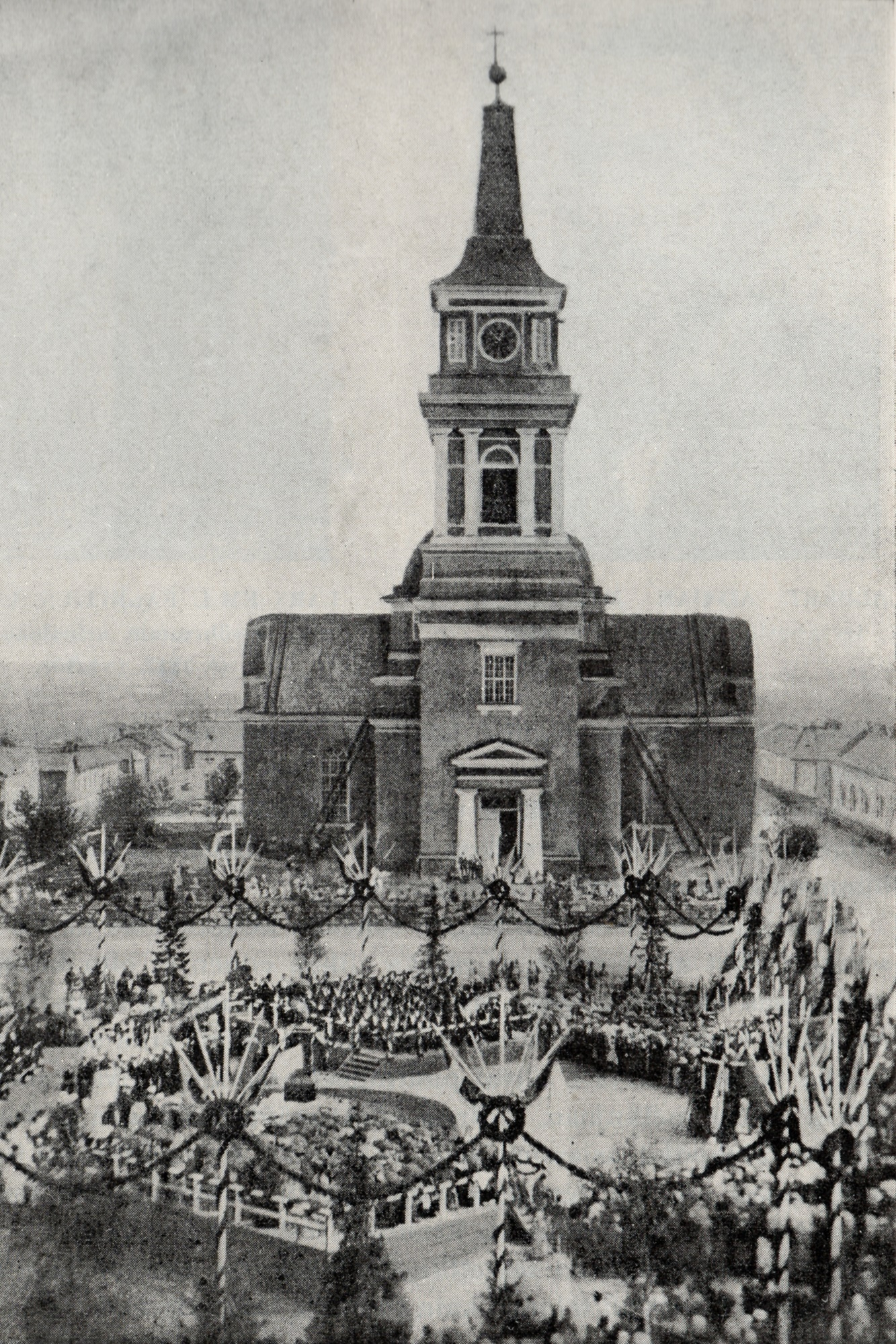 Unveiling of the Frans Mikael Franzén statue in Oulu.